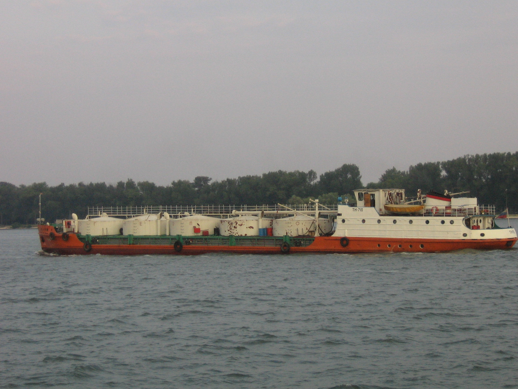 river barge